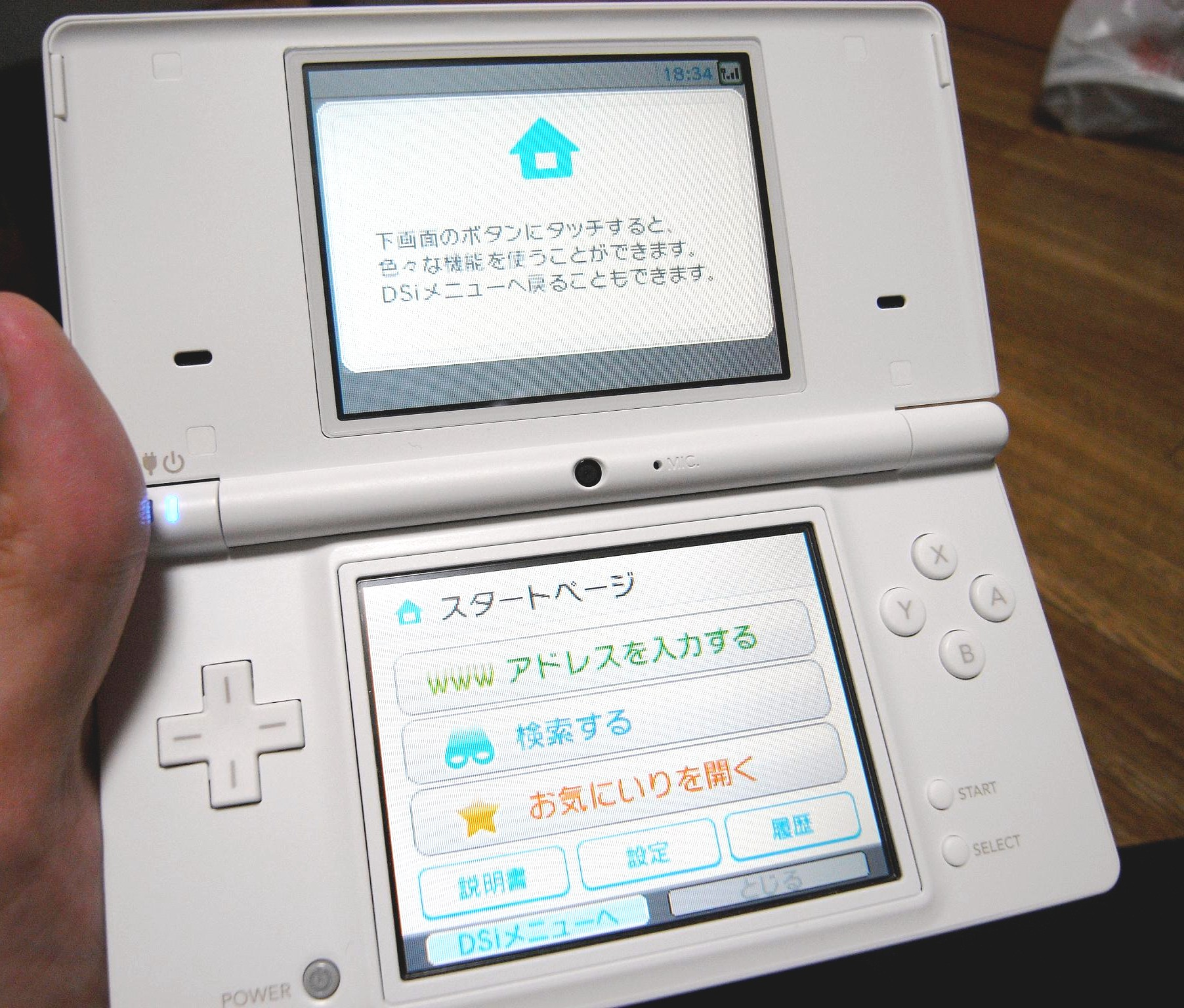 Picture of a DSi.